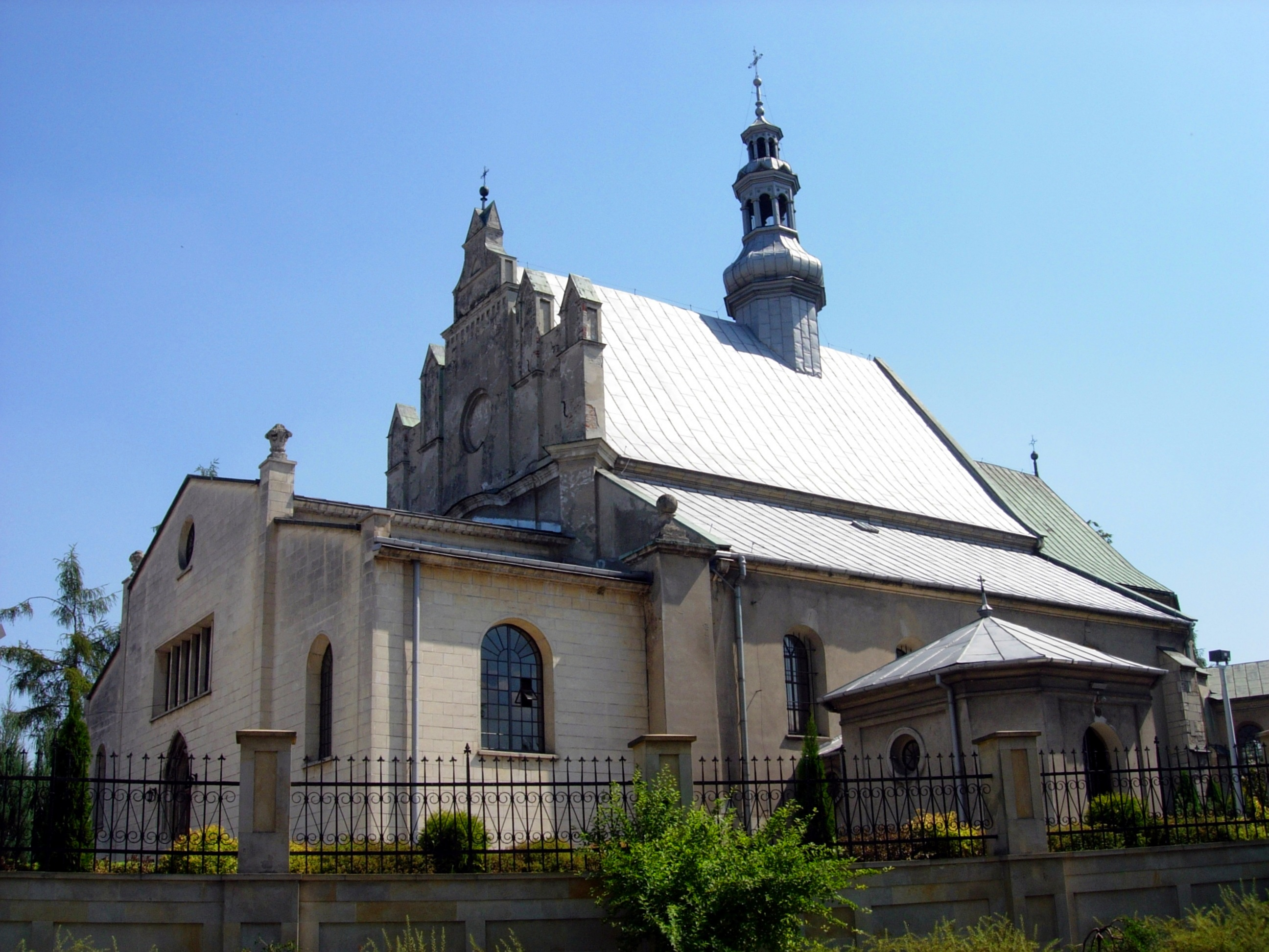 St. Trinity Church in Jędrzejów, Poland